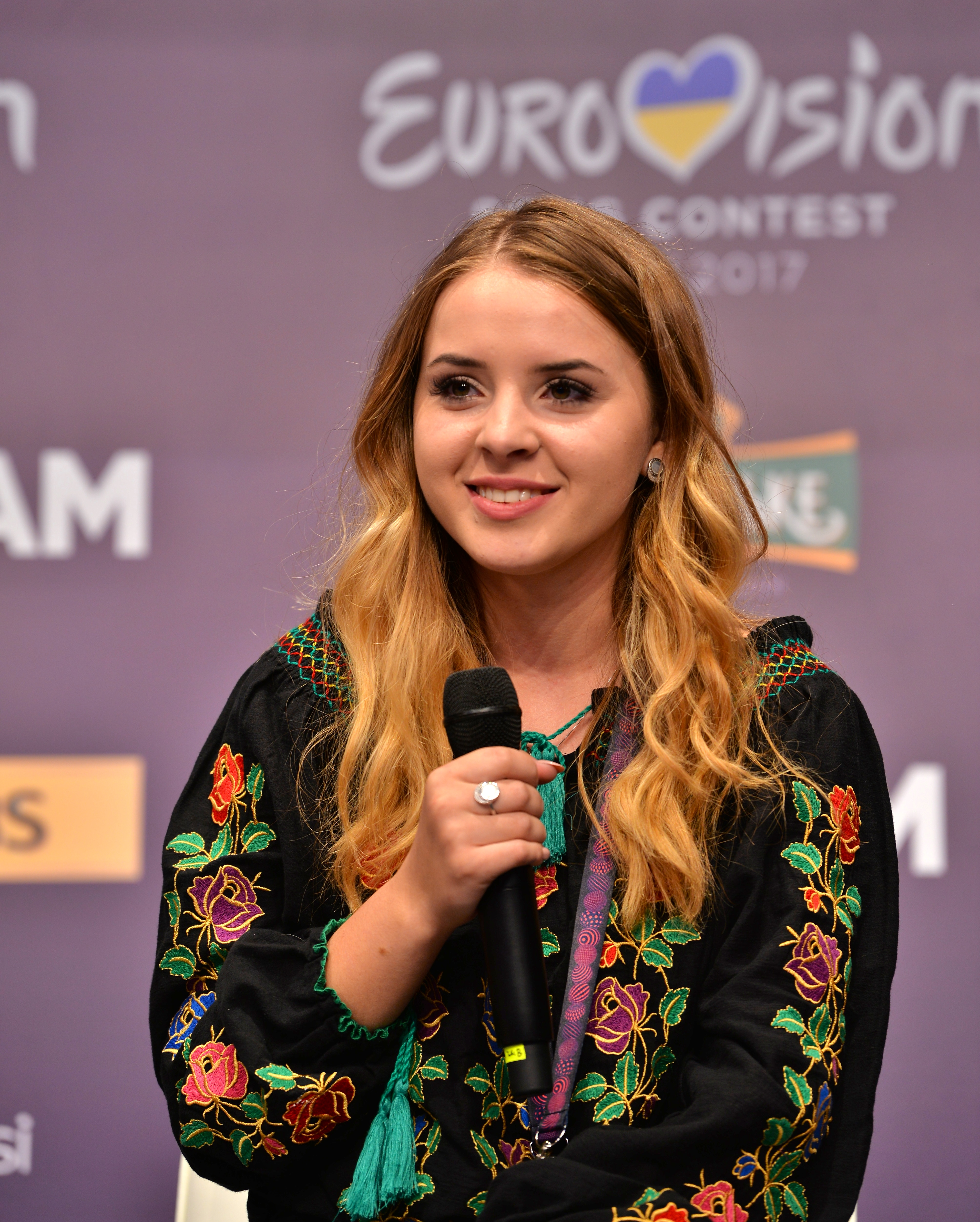 Rumanian jodle singer Ilinca Băcilă in Kyiv 2017